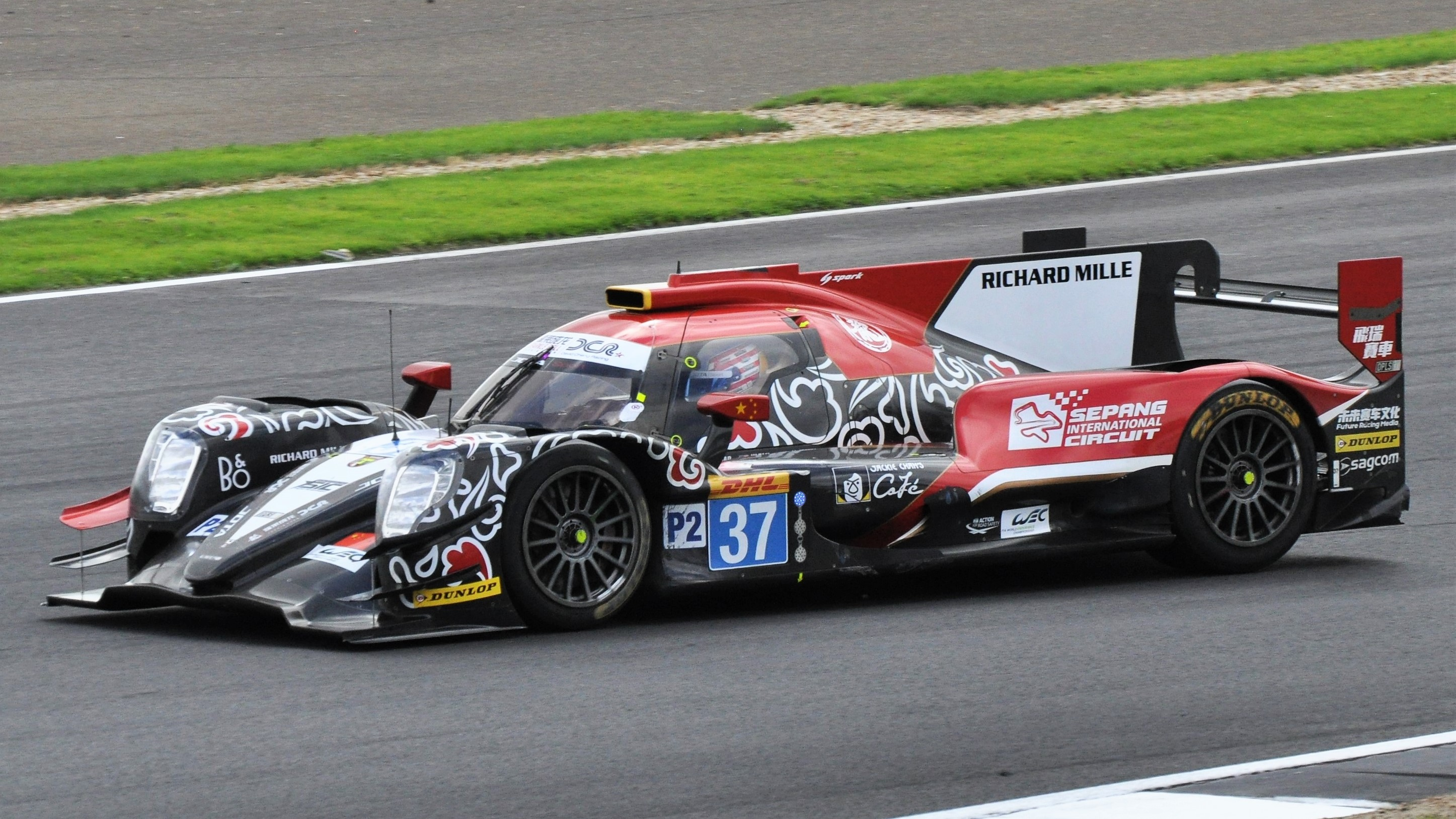 Malaysian driver Weiron Tan eases the number 37 Jackie Chan DC Racing-entered Oreca 07 car into Village corner during the 2018 6 Hours of Silverstone race. Tan and his compatriot co-drivers, Jazeman Jaafar and Nabil Jeffri, finished second in the LMP2 class and fifth overall.